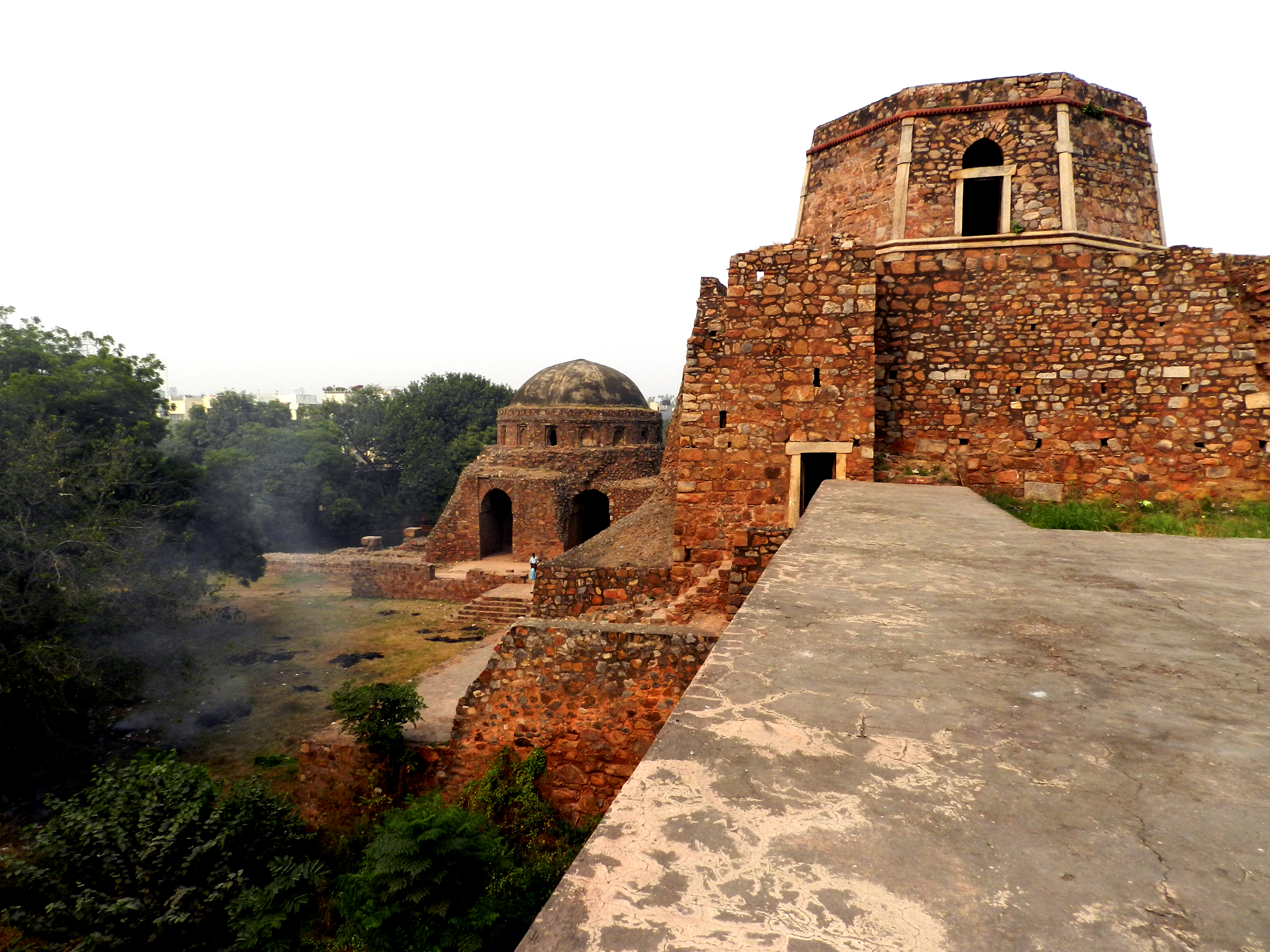 Overview of the Bijay mandal Complex